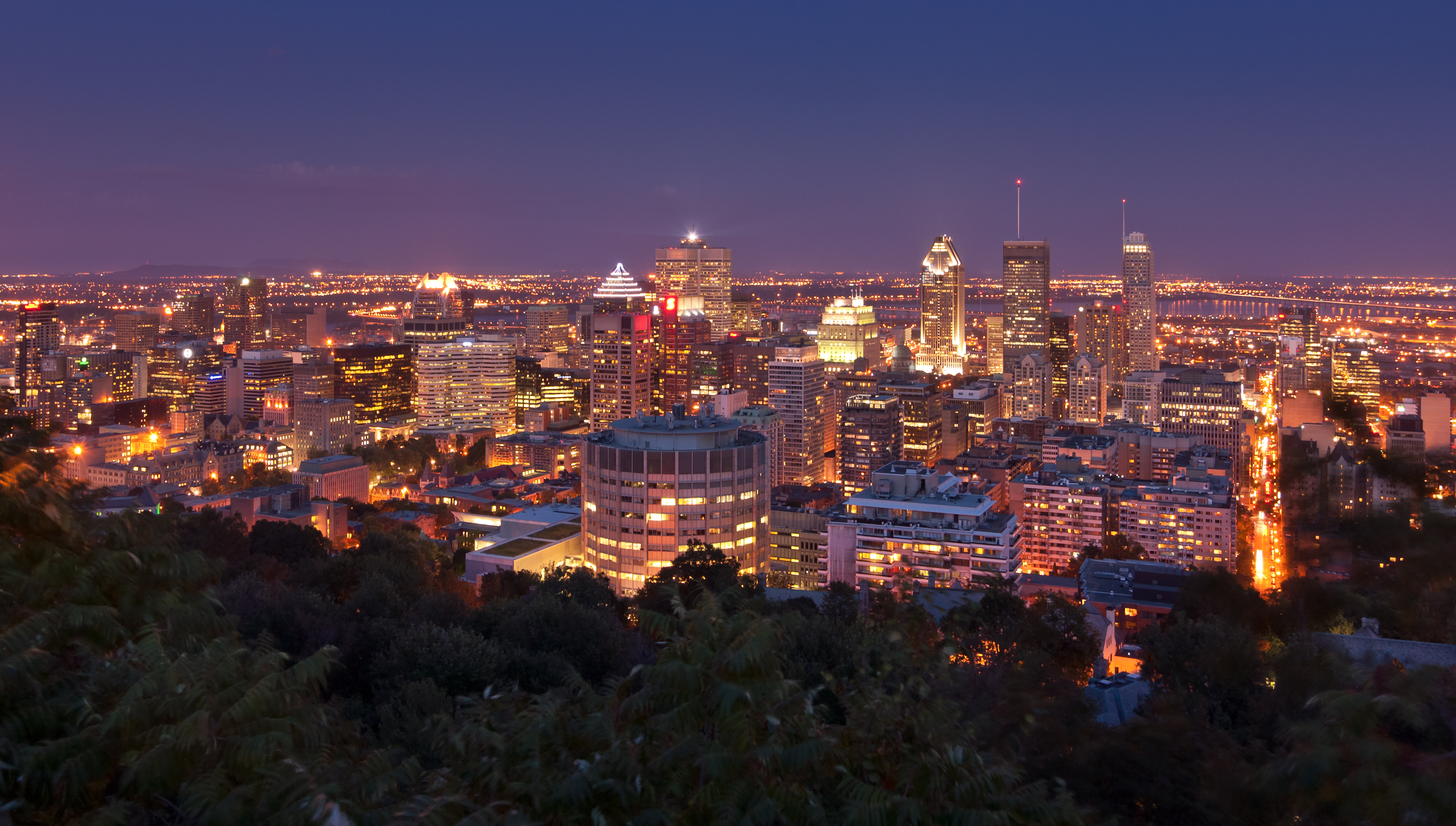 Night view of Montreal from "Belvedere Kondiaronk, chalet du Mont Royal".